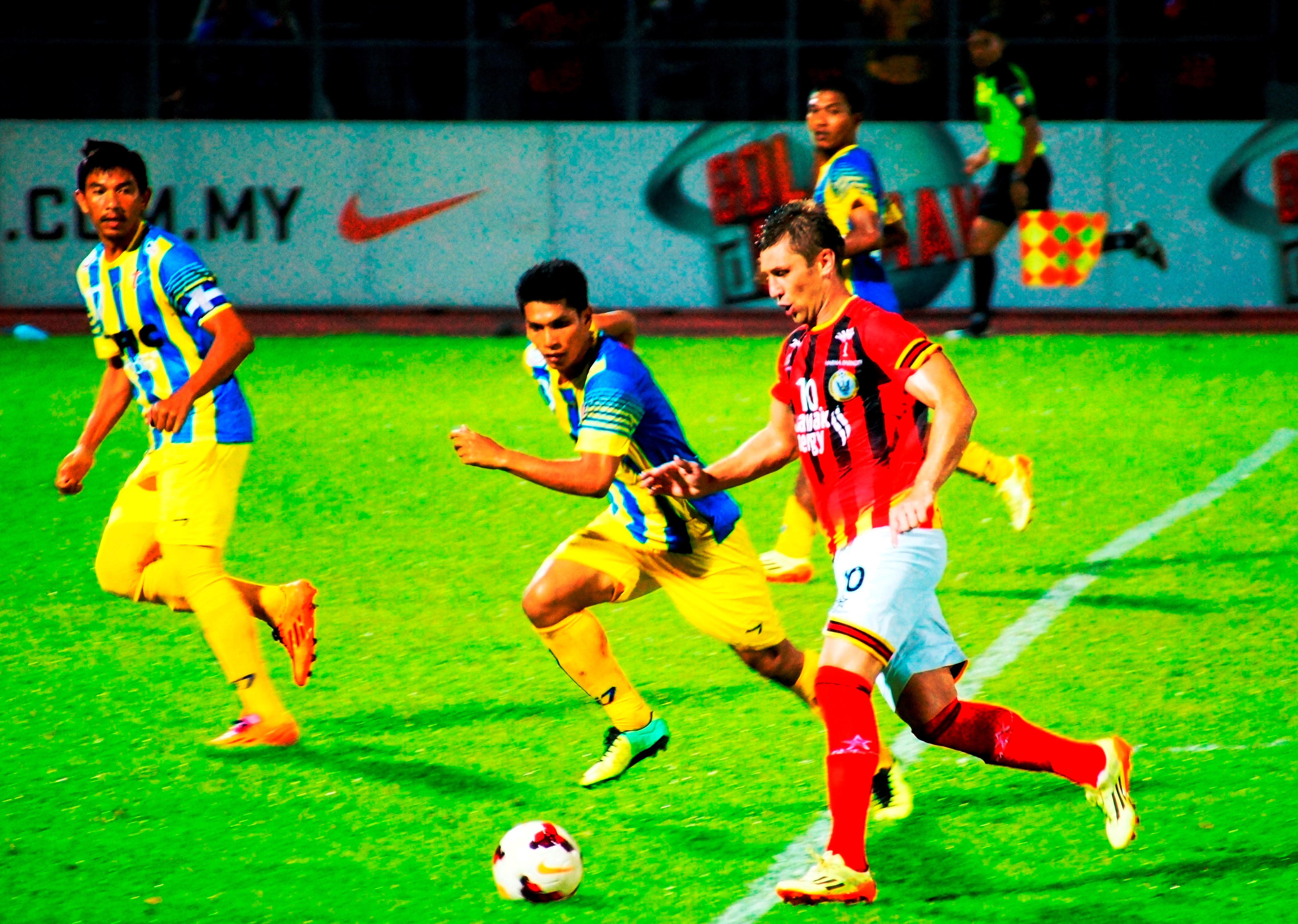 Salibasic in action for Sarawak in Malaysia Super League Match 2014 in a game vs Pahang FA